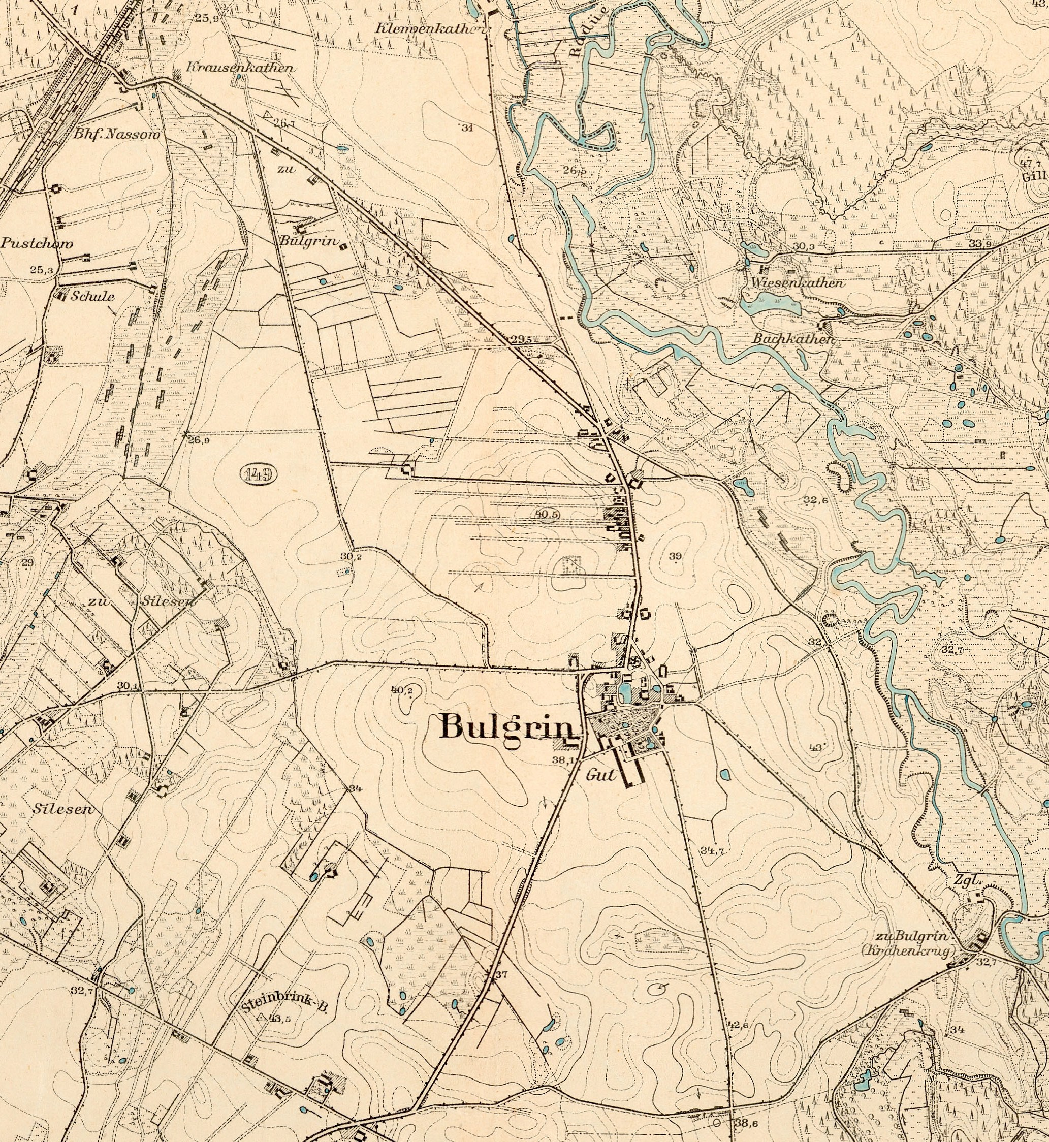 Bulgrin historical map 1891